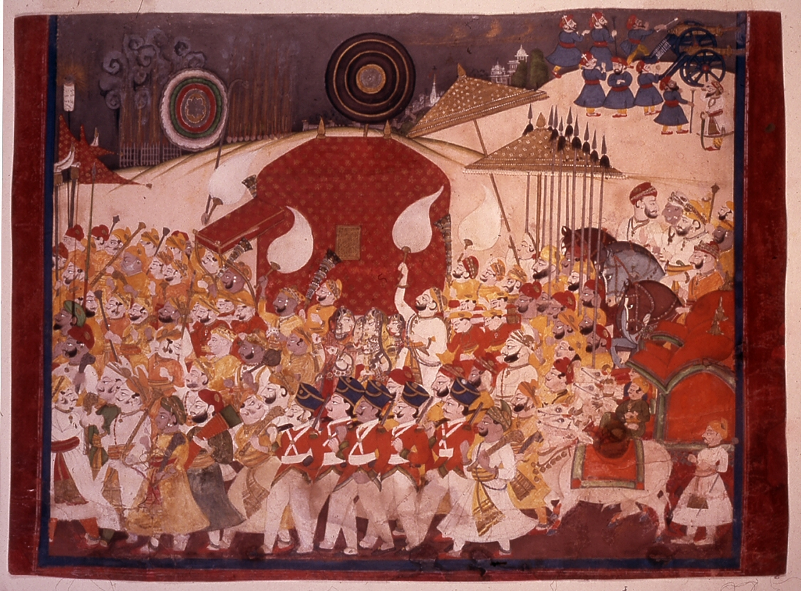 This is a typical example of a genre that was popular with Rajput princes, especially in the 19th century. Larger than the average picture, these historical paintings record the ceremonies and pageantry of the court occasions that must have been welcome diversions from a dreary existence. A large group of such pictures has survived from the reign of that boisterous and bon-vivant Kotah ruler Ram Singh II (r. 1827-66). Indeed, this ruler seems to have been singularly fond of documenting the significant events of his colorful courtly life in equally gay and sumptuous pictures. This painting is one such example and depicts a procession in great detail. It is a wedding procession, as is clear from the litter covered with a red cloth that carries the bride. Unless it was a winter day, the bride must have literally baked inside, for even the small window is well covered. That it is a celebratory occasion is further evidenced by the cannons being fired in the upper right corner and the fireworks going off on the upper left. The regal trappings and insignias that accompany the draped litter make it clear that this is a royal wedding. Ram Singh married at least eight times, but this scene may relate to his principal marriage. Noteworthy also is the row of marching soldiers in European dress in the foreground. The presence of these soldiers is probably the result of the protectorate status bestowed on the state by the British in 1817.